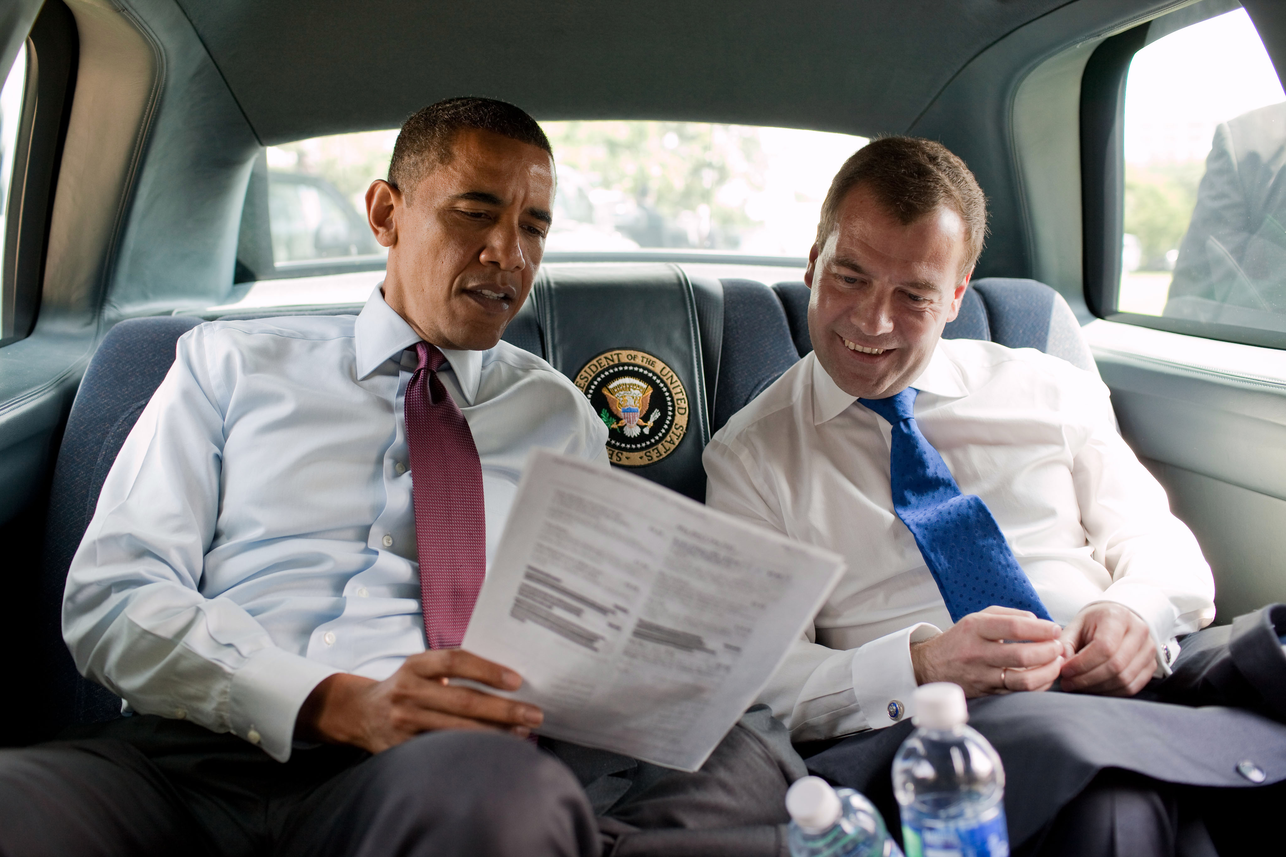 June 24, 2010 "President and Russian President Dmitry Medvedev look at the menu en route to Ray's Hell Burger where they stopped and had burgers for lunch." (Official White House Photo by Pete Souza) This official White House photograph is in the public domain from a copyright perspective, so while restrictions such as personality or privacy rights may apply, in general, manipulations are allowed.